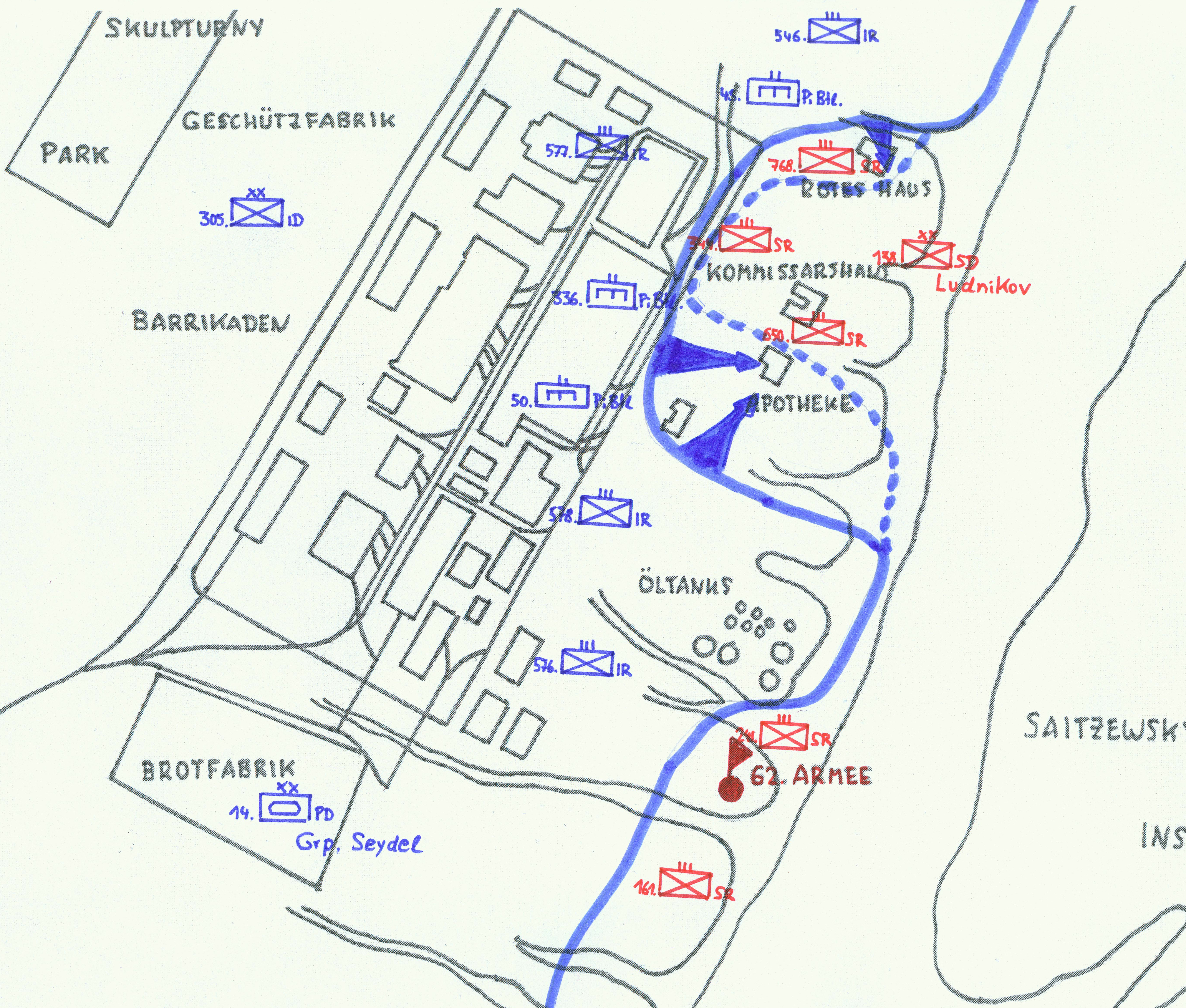 outline draw according to Glantz